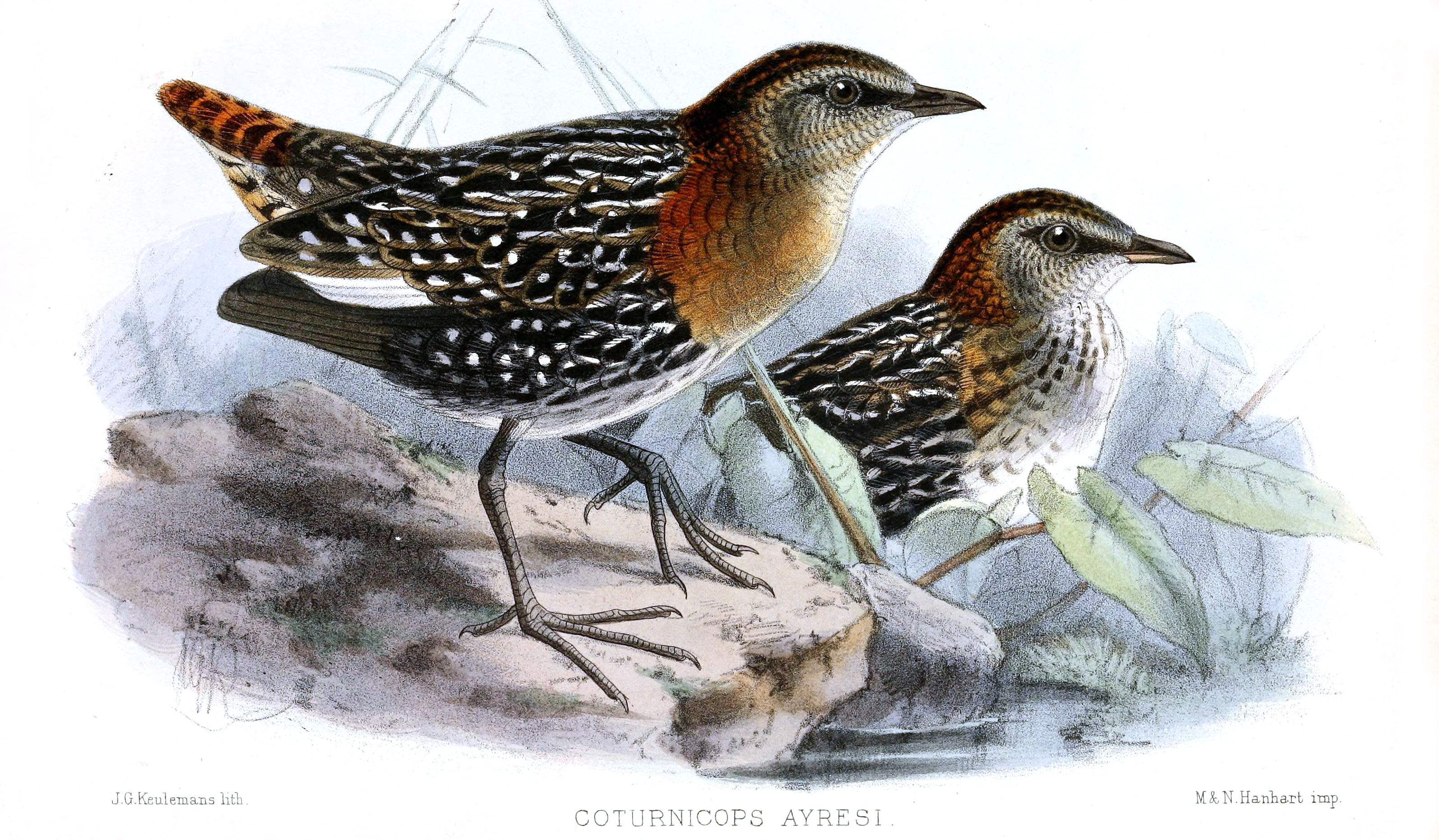 « Coturnicops ayresi » = Sarothrura ayresi (White-winged Flufftail)